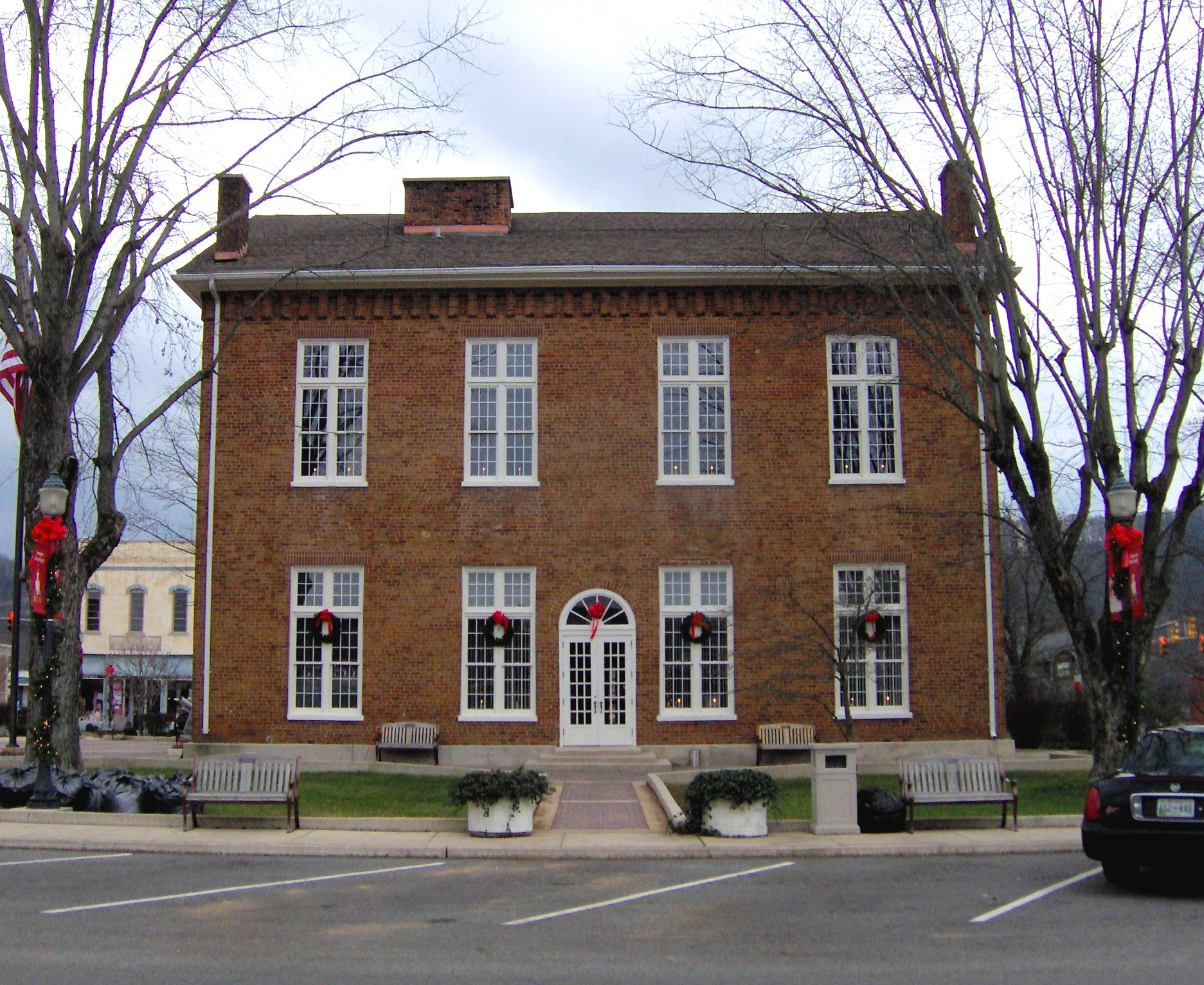 Overton County Courthouse in Livingston, Tennessee, located in the Southeastern United States. The courthouse was built in the late 1860s by "Little Joe" Copeland.